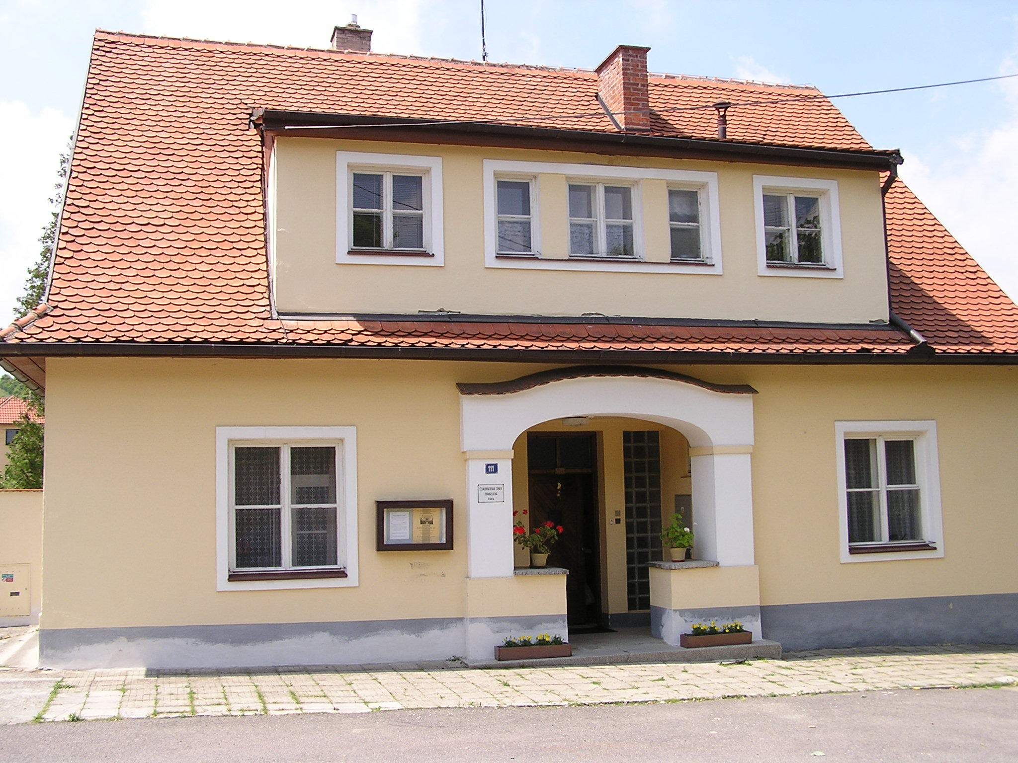 Protestant rectory in Javorník (nad Veličkou), Hodonín District, Czech Republic